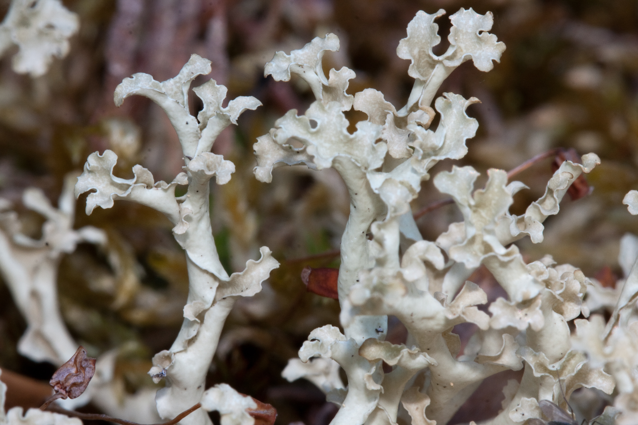 The lichen Flavocetraria cucullata (Bellardi) Kärnefelt & Thell. Specimen photographed in Maligne Lake, Jasper NP, Alberta, Canada.